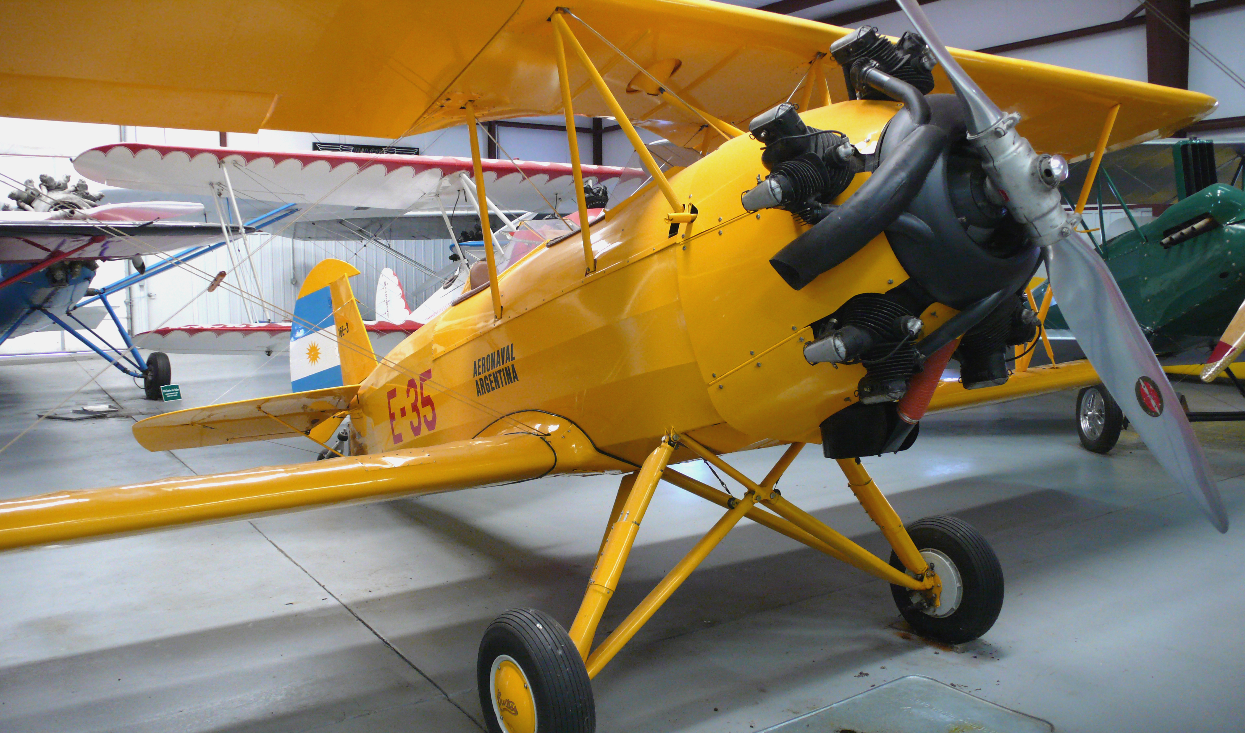 Curtiss Travel Air 16E, built in 1932